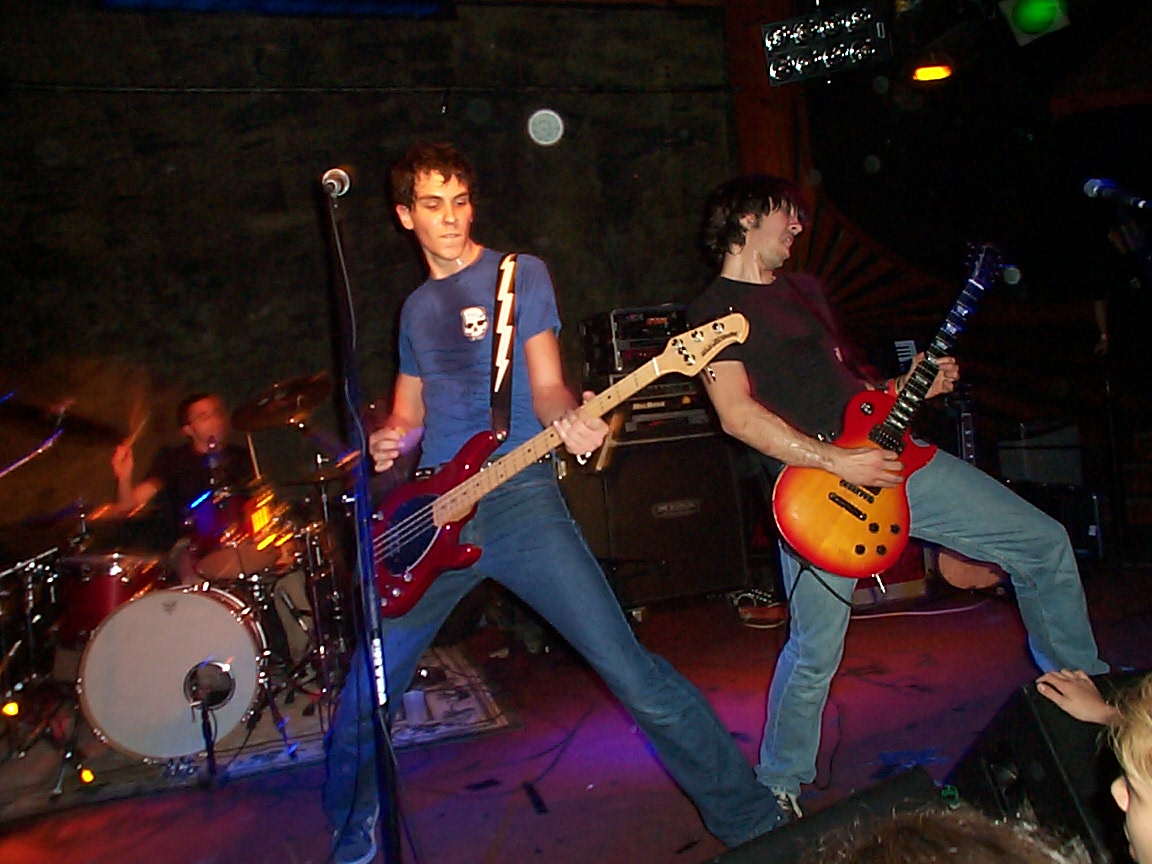 Midtown, in November 2000 during a show at the Troubadour in West Hollywood, California, USA